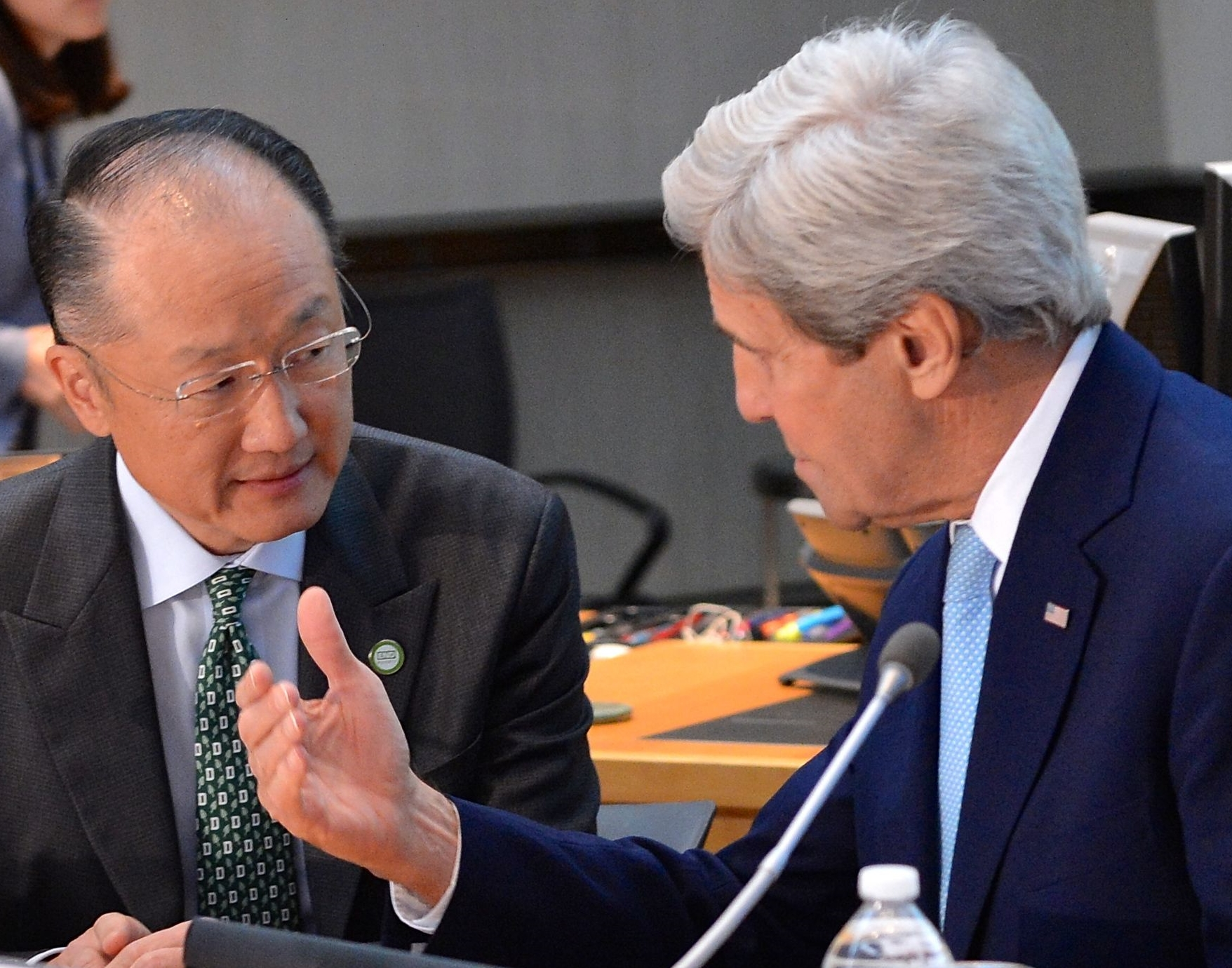 U.S. Secretary of State John Kerry chats with World Bank President Jim Yong Kim before delivering remarks at the Global Connect Initiative event at the World Bank in Washington, D.C., on April 14, 2016. [State Department photo/ Public Domain]